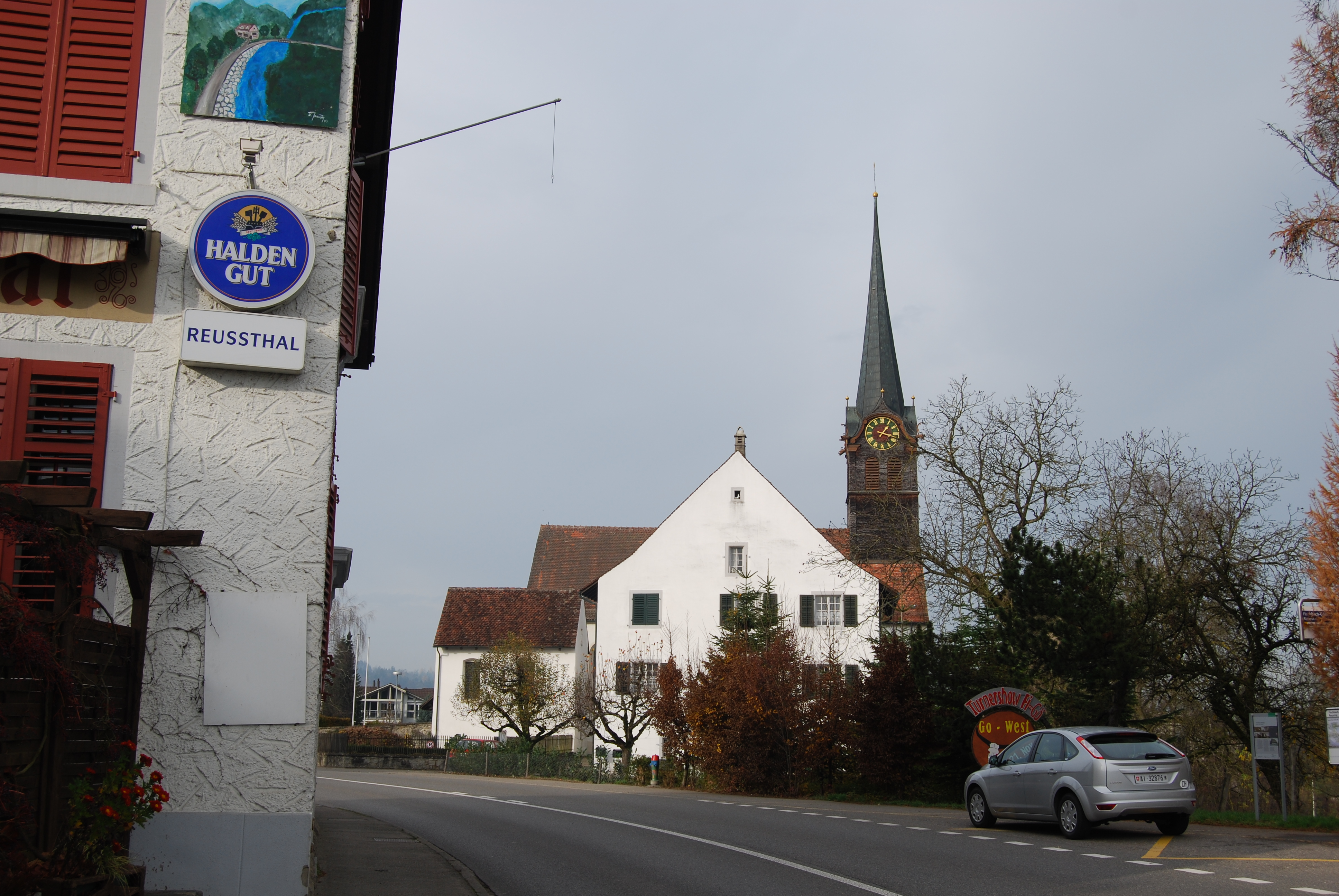 Church of Fischbach-Göslikon, canton of Aargau, SwitzerlandEsperanto: Preĝejo de Fischbach-Göslikon, Kantono Argovio, Svislando